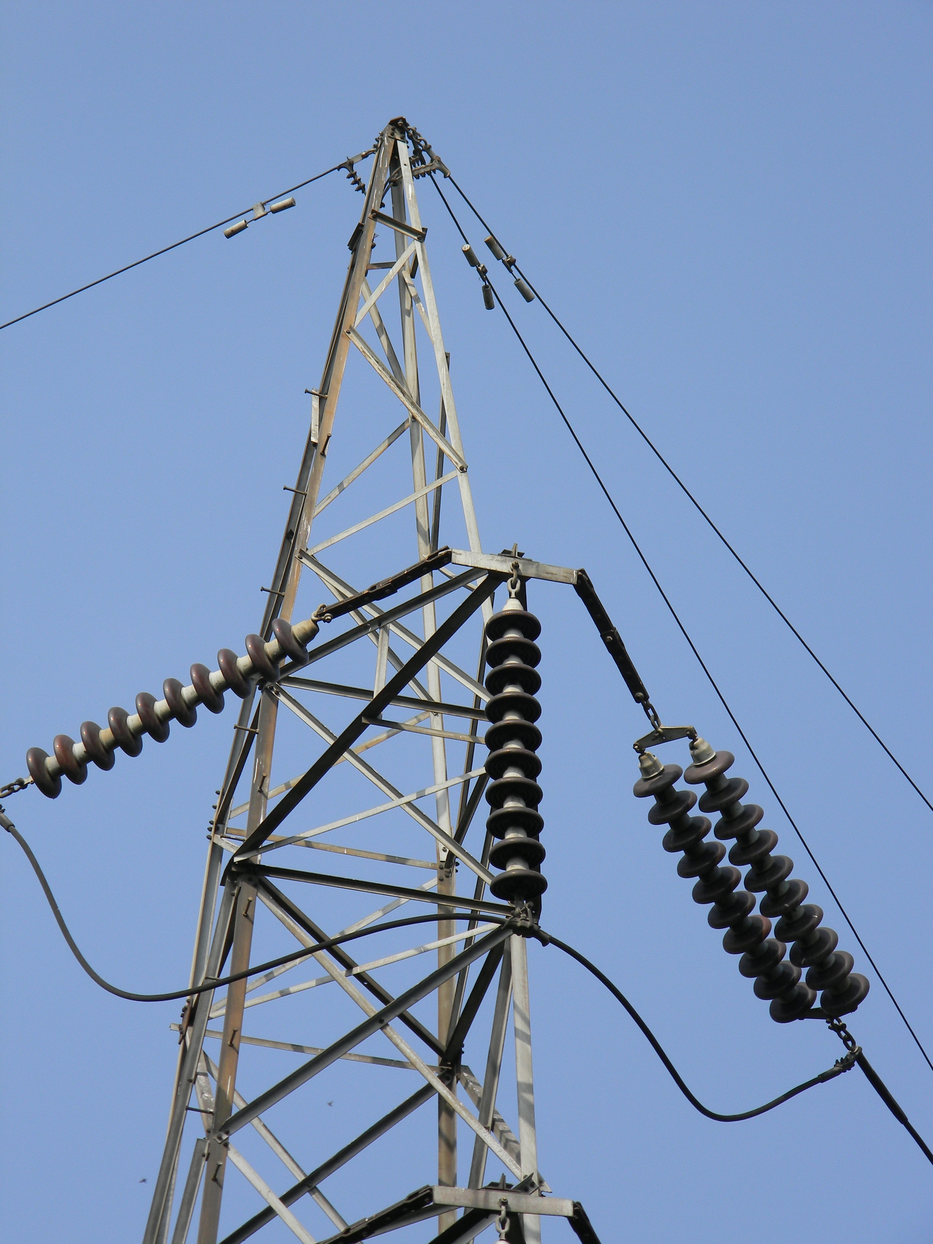 132 KV transmission line of West Bengal State Electricity Board, Howrah.